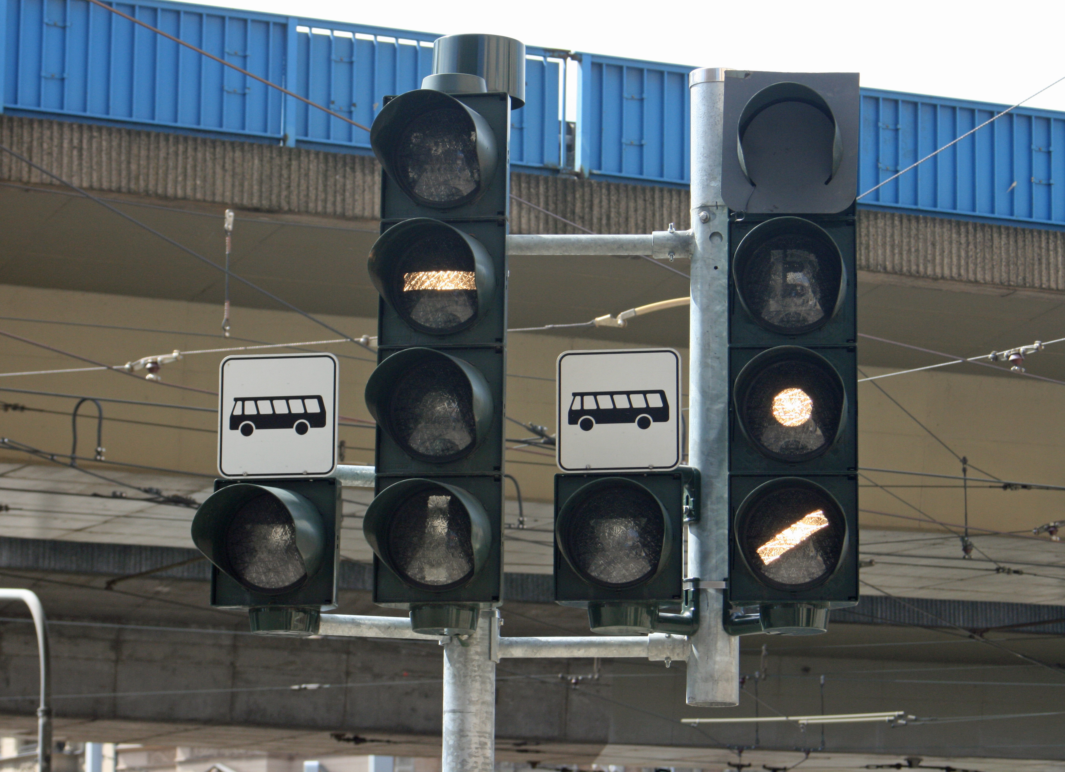 Tram signs in Germany: two F for bus and two F for tram